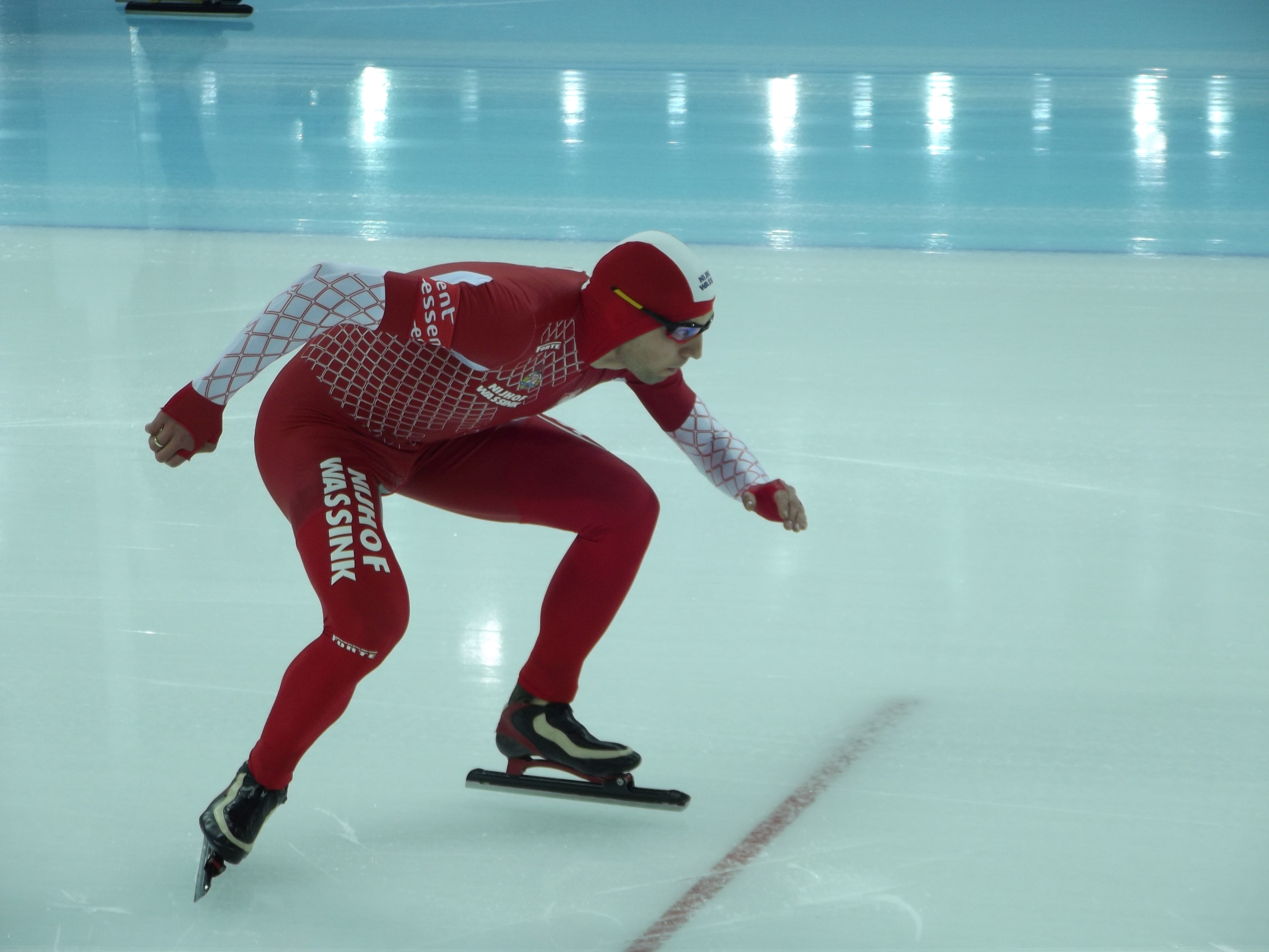 2013 World Single Distance Speed Skating Championships